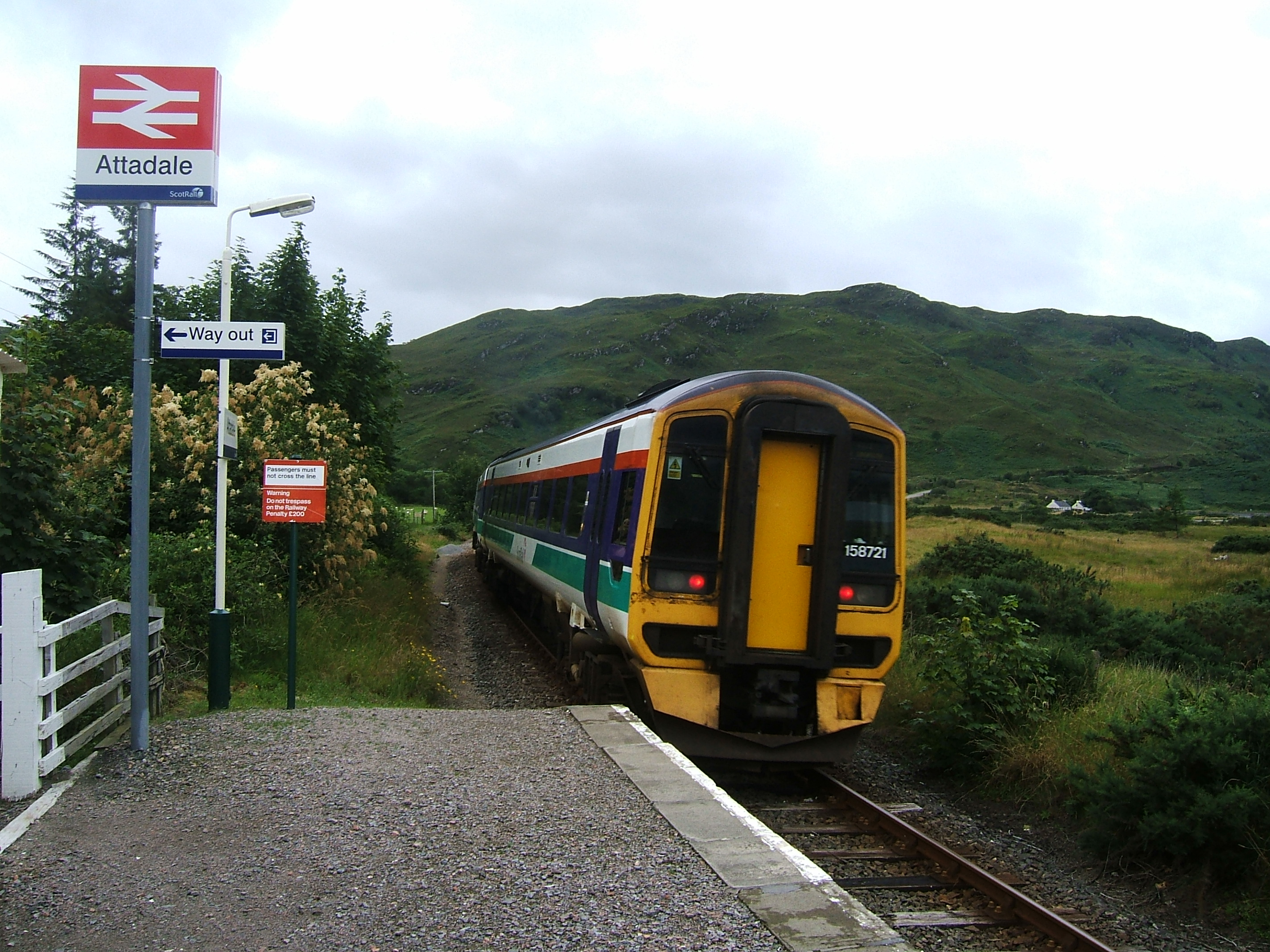 British Rail Class 158 DMU (158721) departing Attadale for Kyle of Lochalsh